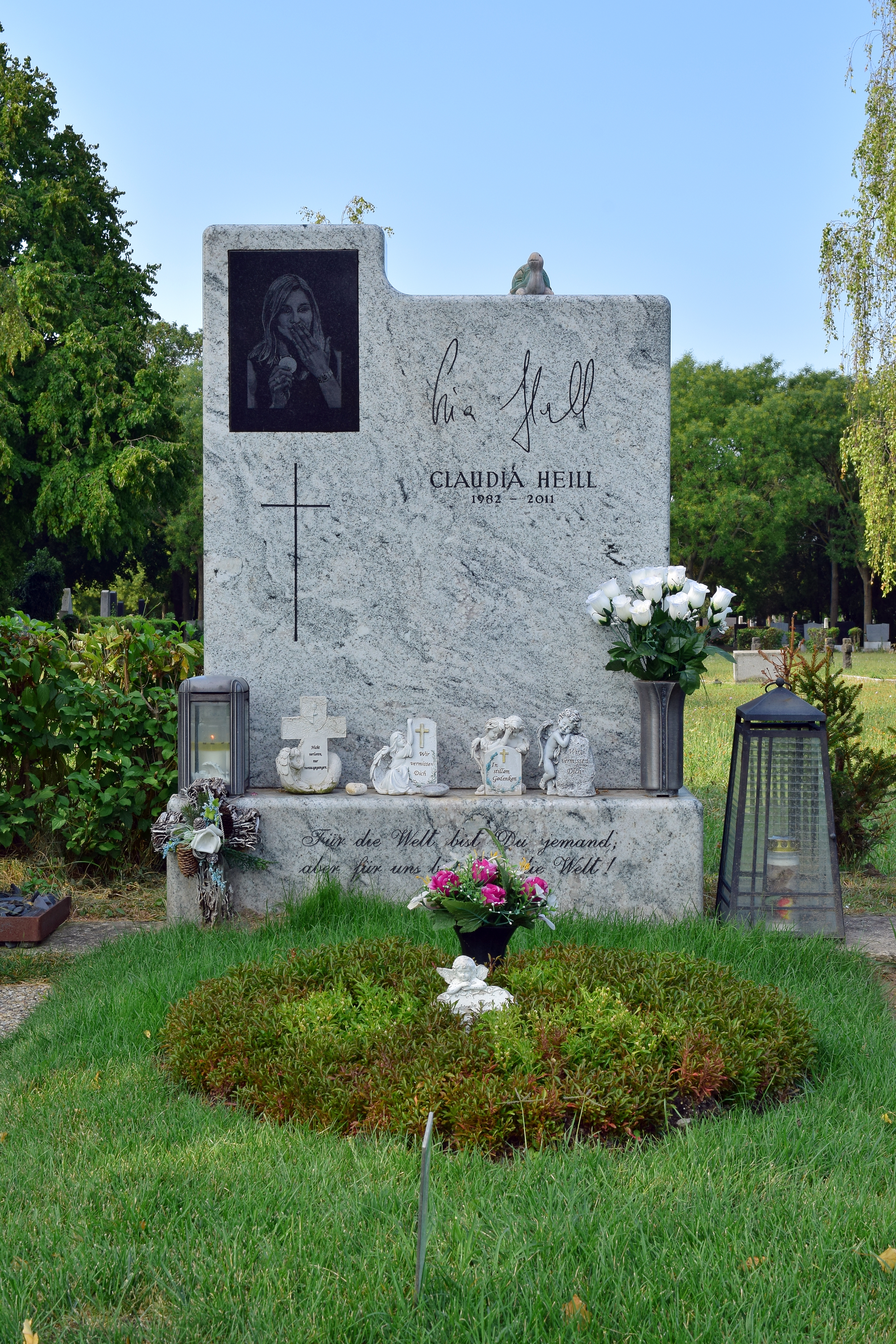 Grave of honor of Claudia Heill at the Wiener Zentralfriedhof